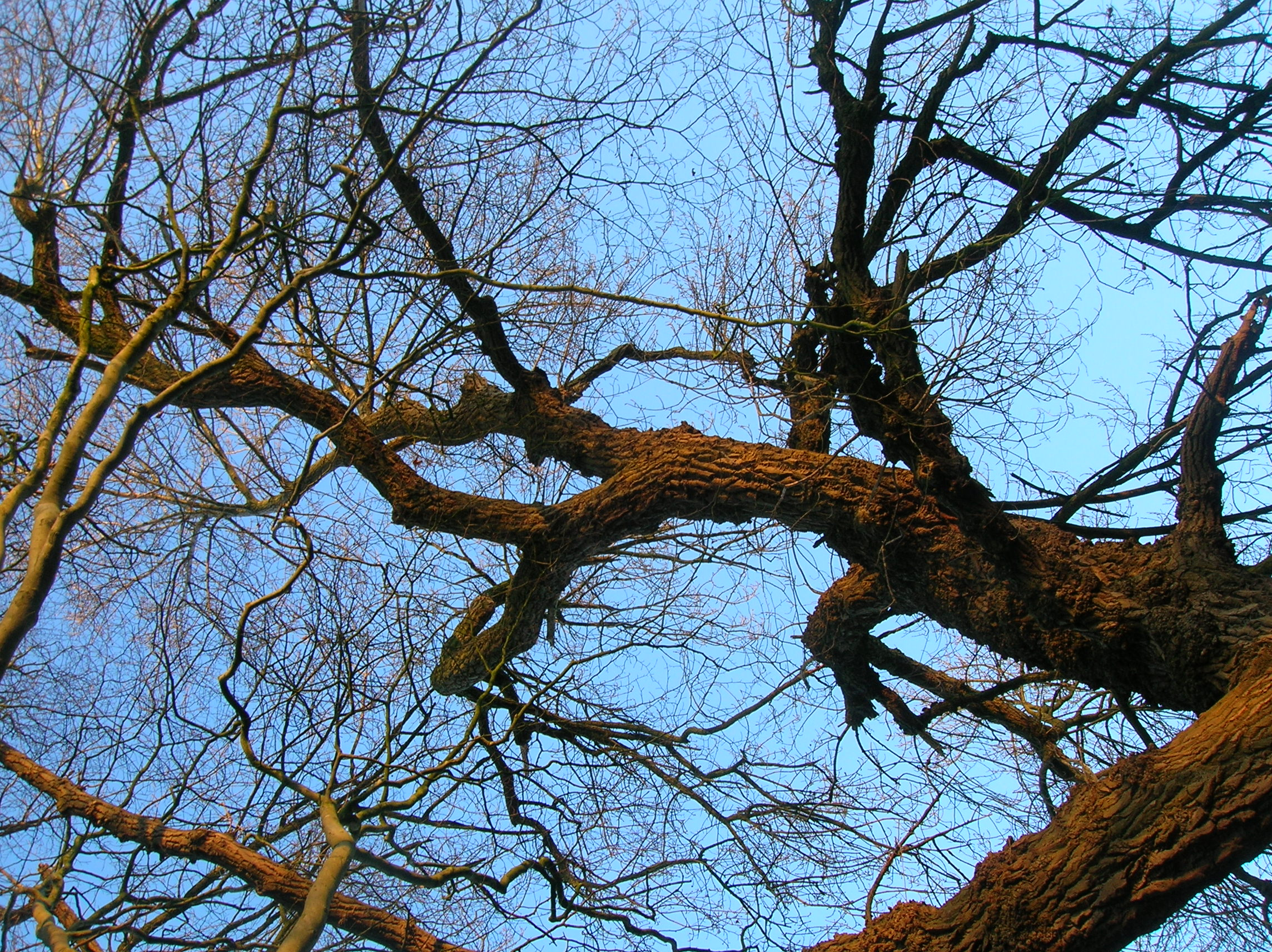 A Poplar tree at Cunninghamhead, North Ayrshire, Scotland.